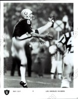 A press photograph of Los Angeles Raiders punter Ray Guy punting the football during a 1985 game.